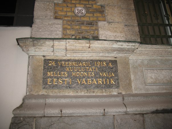 plaque